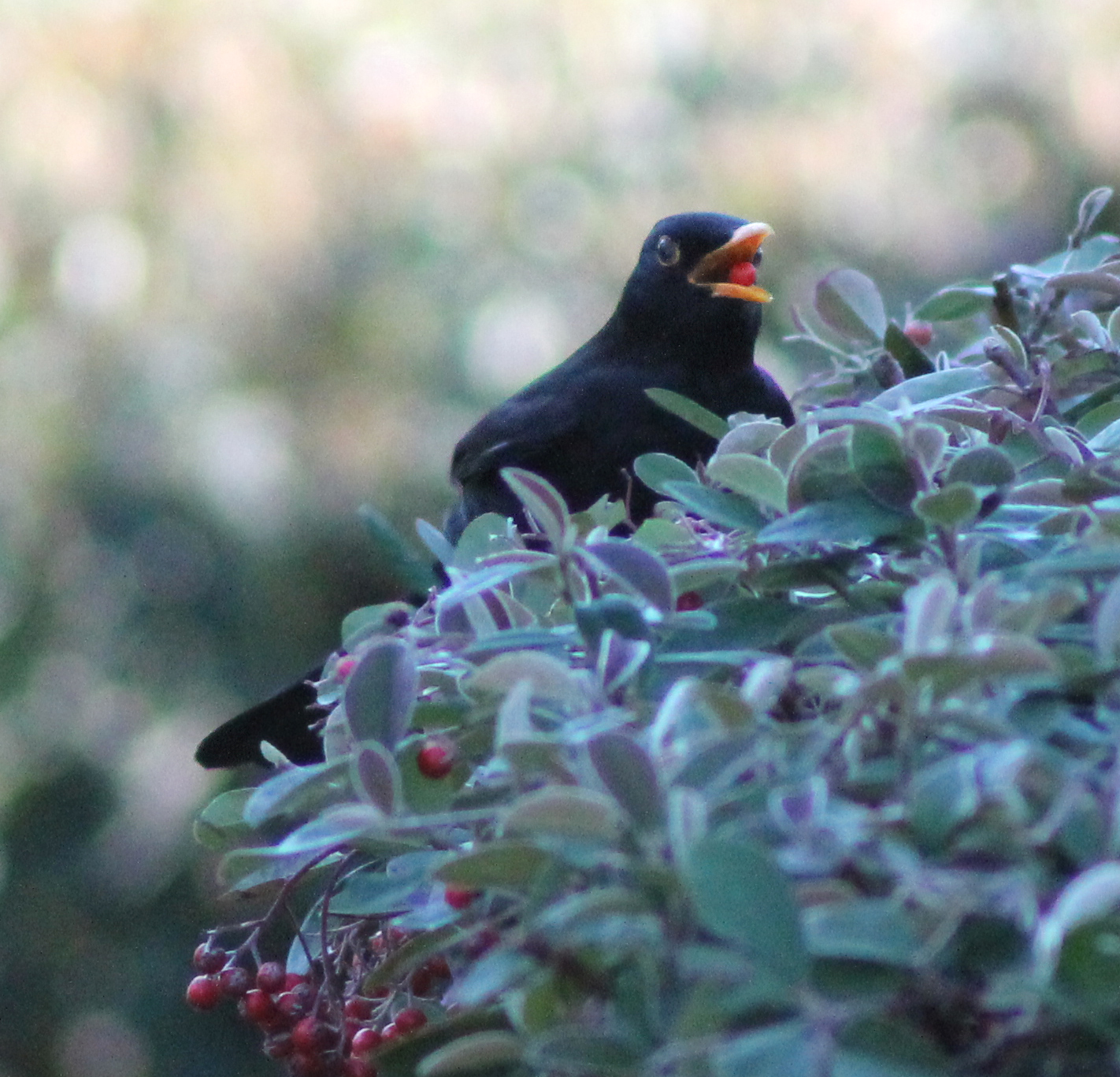 A male blackbird (Turdus merula) eating a berry in Madrid (Spain).